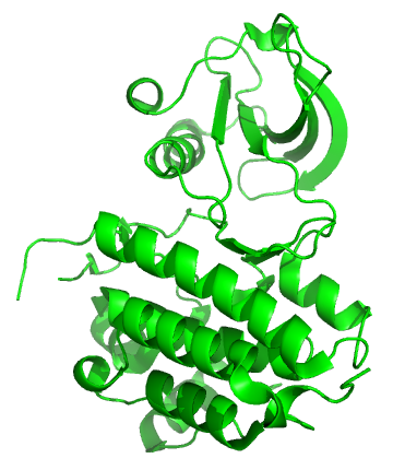 Secondary/tertiary structure ribbon diagram of the kinase domain of human ephrin type-A receptor 5 (EphA5)